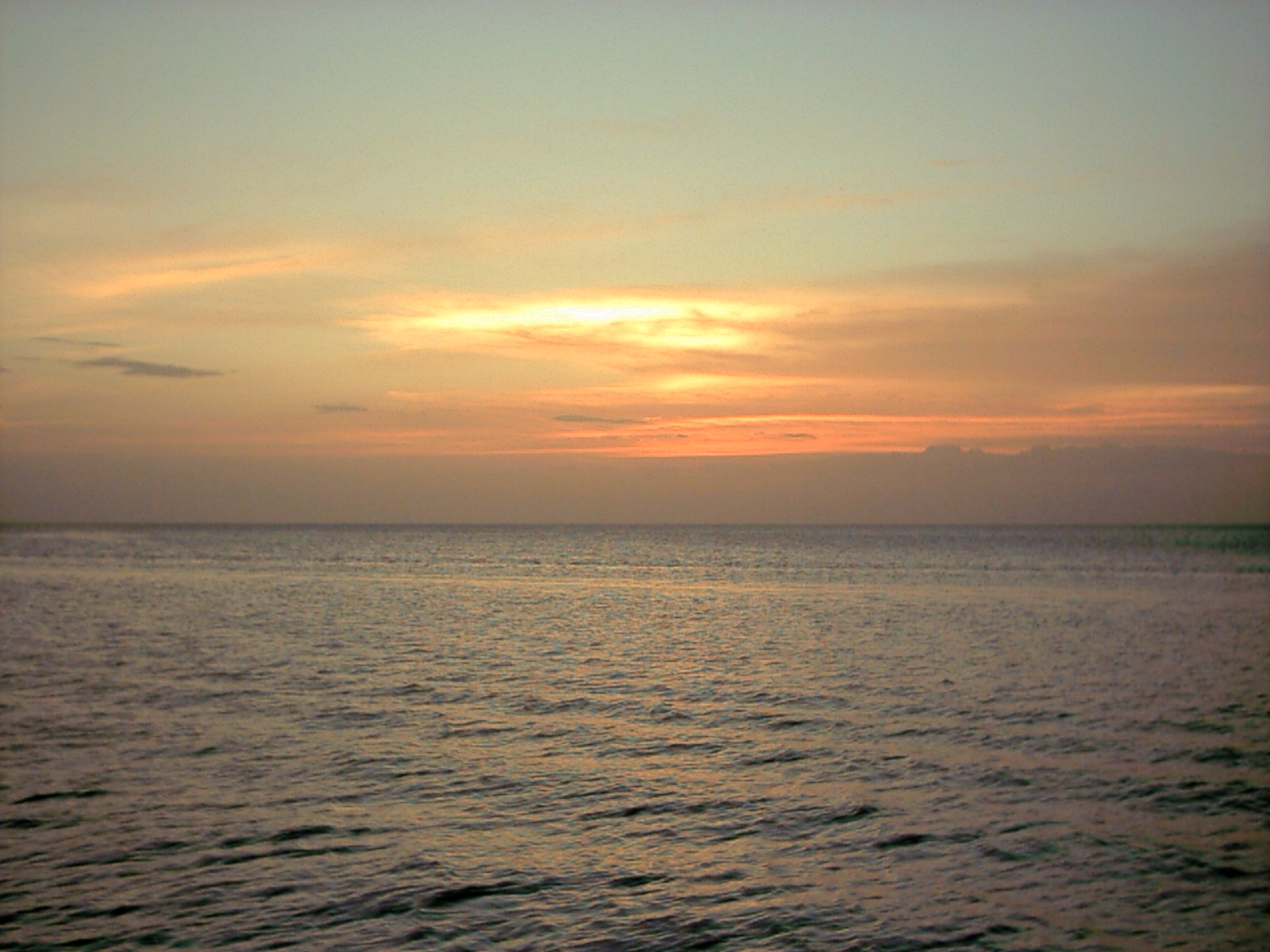 Sea and sun in Campeche, Mexico.